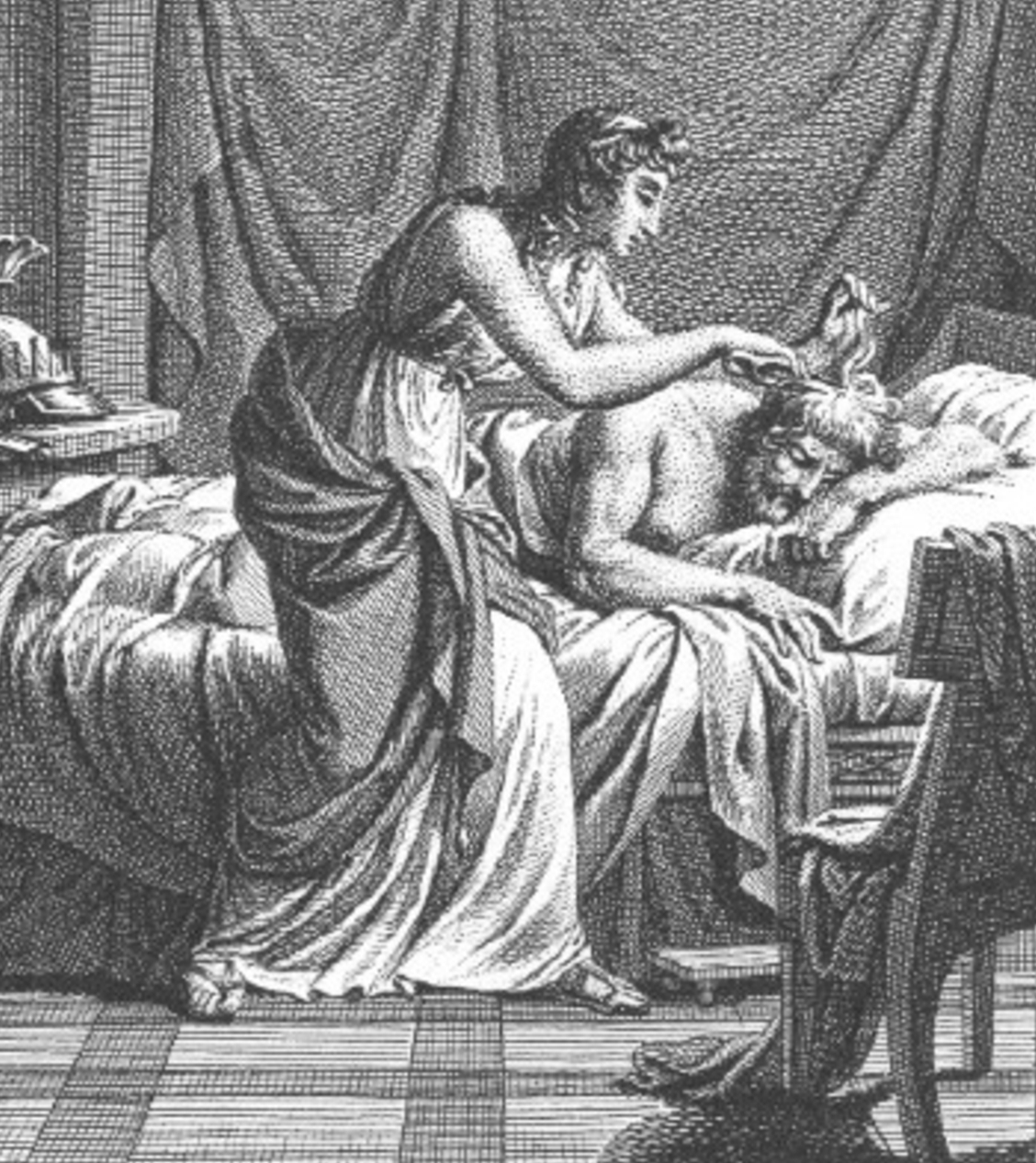 Detail of: Scylla and Nisus. Scylla cutting her father's purple hair. Drawing by Nicolas-André Monsiau (1754-1837) in Les Métamorphoses d'Ovide, Paris 1806